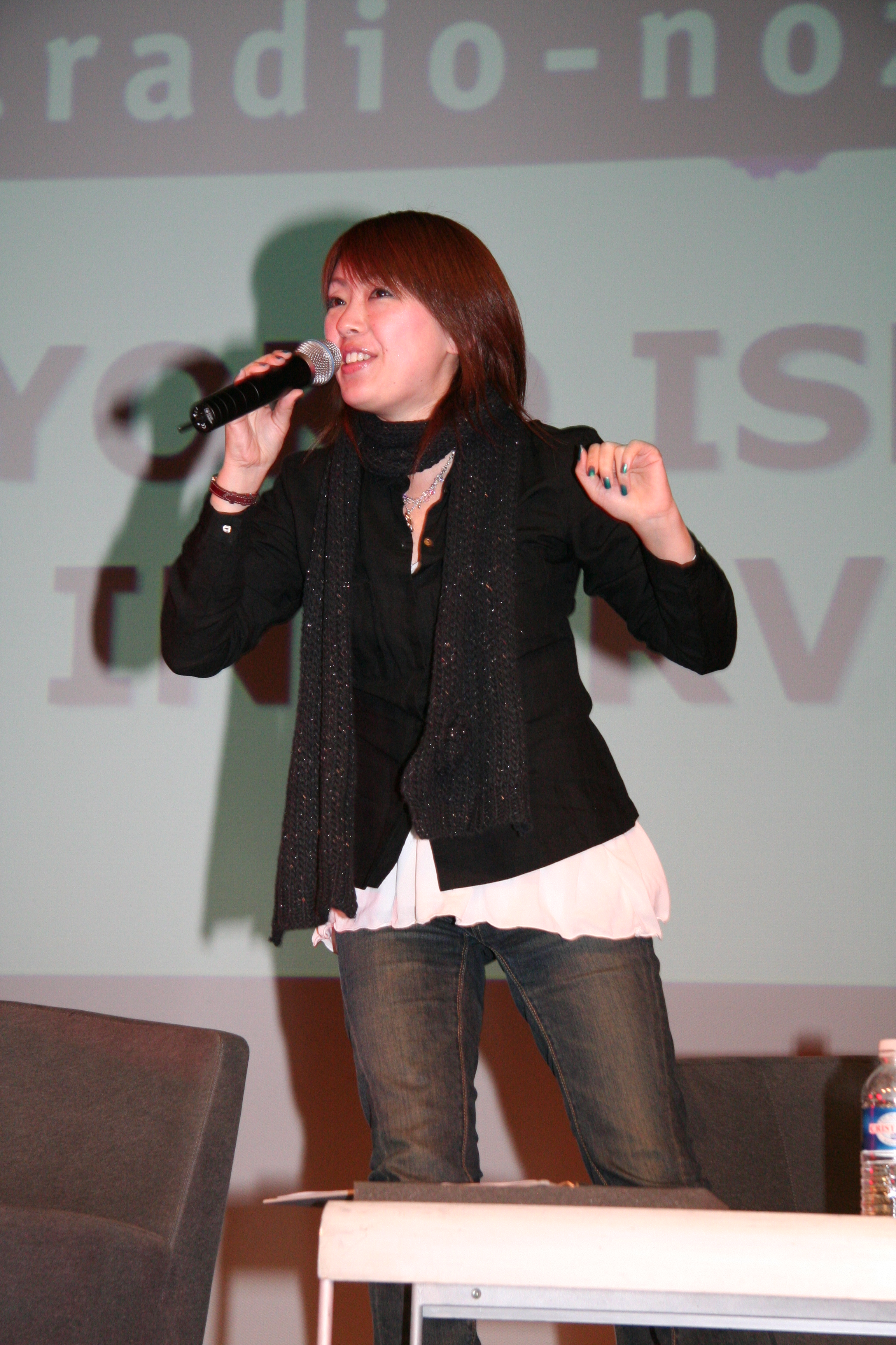 Conference with Yoko Ishida at Manga Expo 2 (Paris, France).